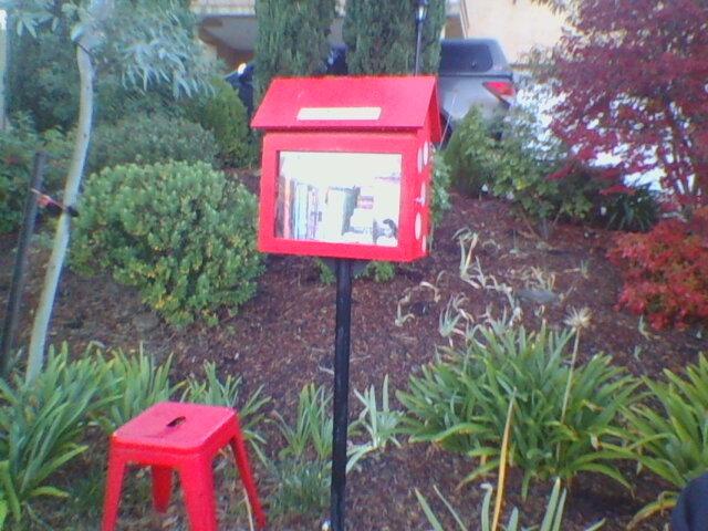 A standard view of the Arabanoo Street Library at 2 Walga Place, Ngunnawal, ACT, 2913. Community Member 602.